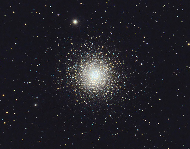 M15 Globular Cluste in Pegasus